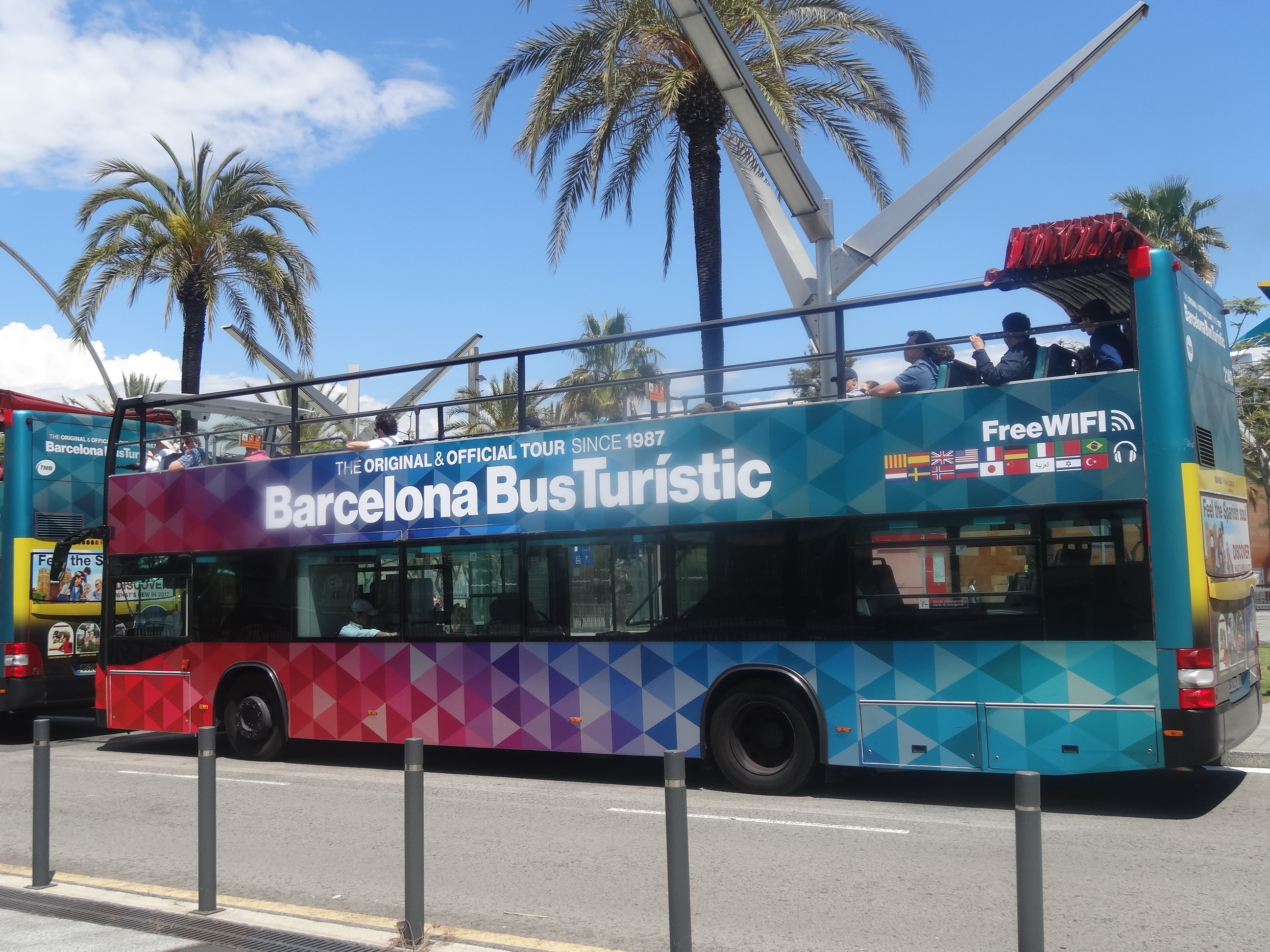 Barcelona Bus Turistic - May 2017